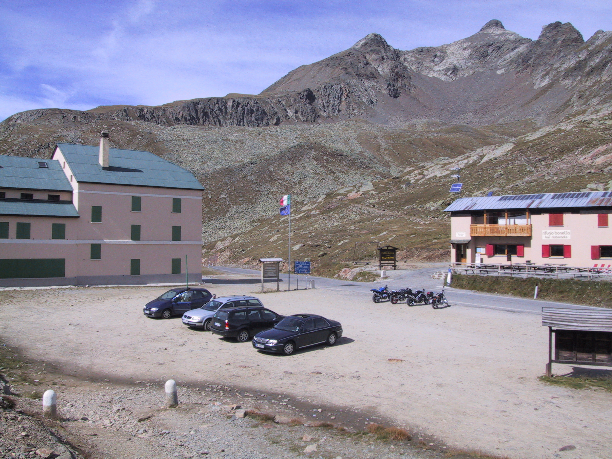 Passo Gavia seen from SE towards Monte Gavia 3223m